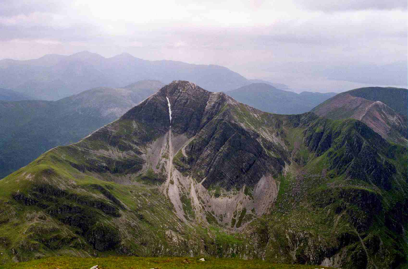 Personal photograph taken by Mick Knapton